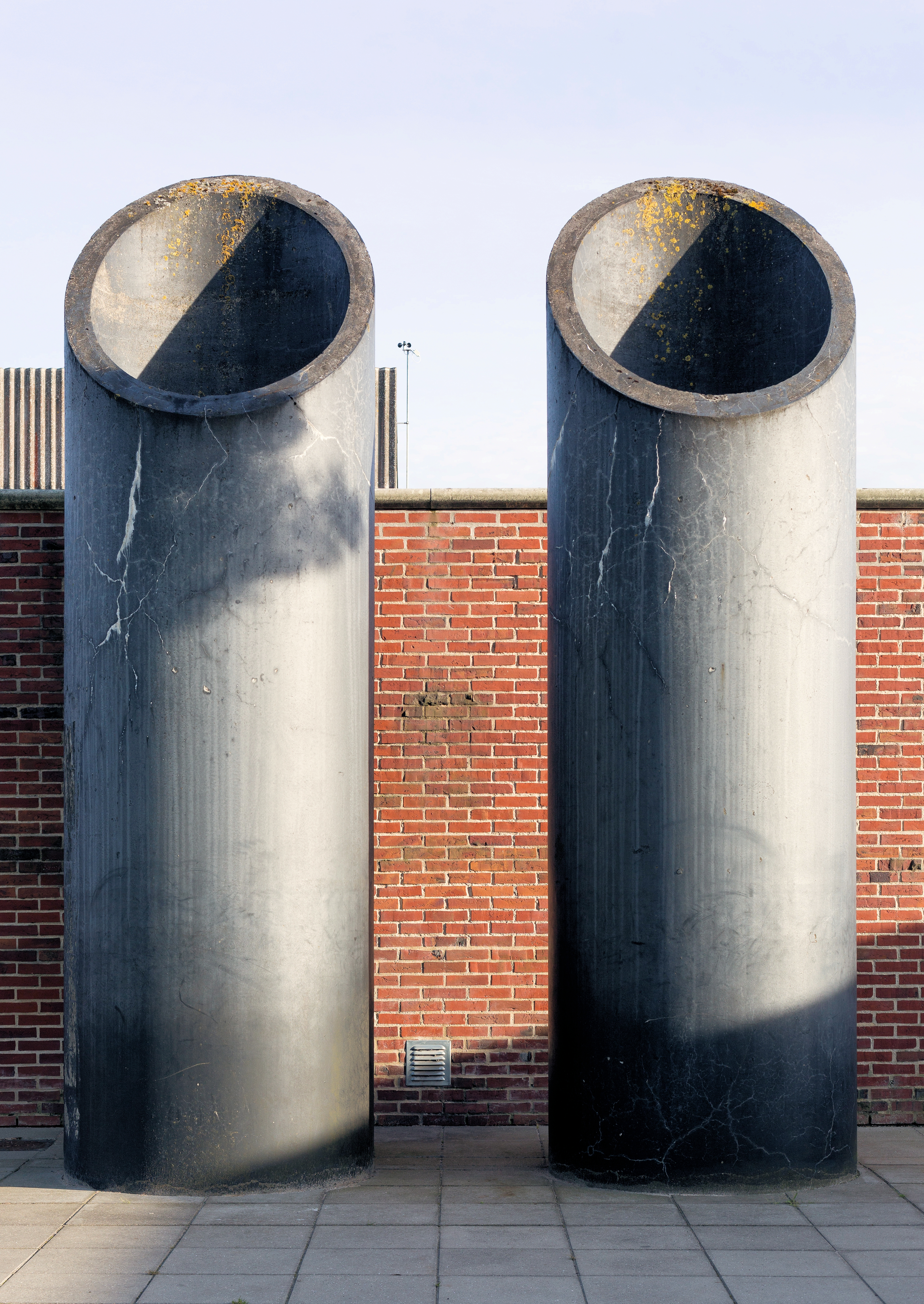 Ventilation shafts Langkær Gymnasium